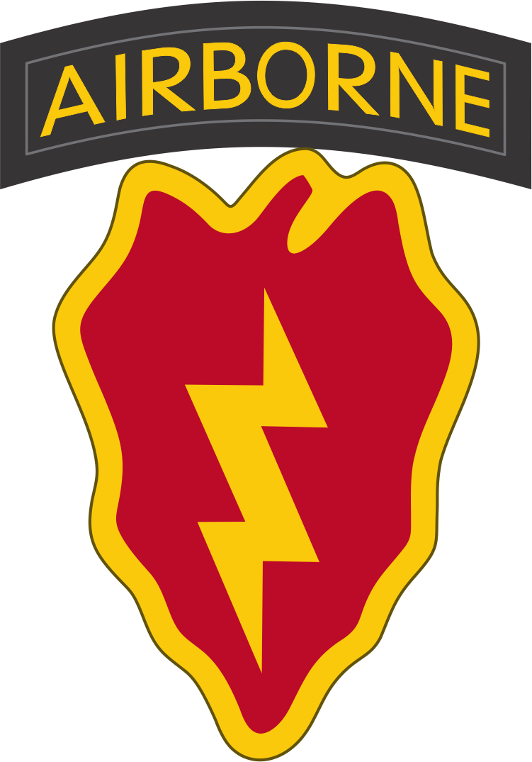 Shoulder Sleeve Insignia of soldiers assigned to 4th Brigade Combat Team (Airborne), 25th Infantry Division, which includes the authorized wear of a black and gold airborne tab.